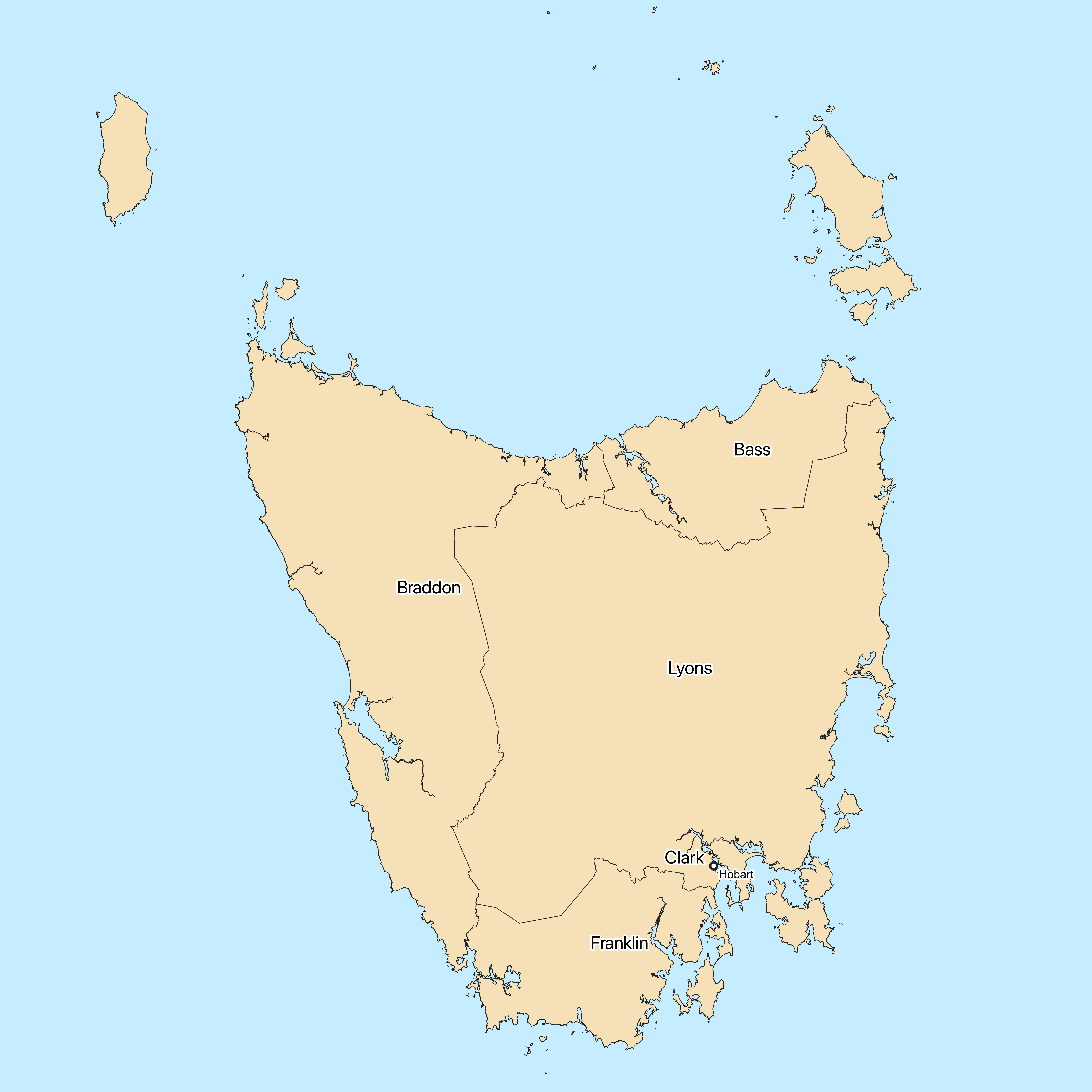 Map of the Australian federal and state electoral divisions in Tasmania as of the 2019 Australian federal election. Incorporates or developed using Administrative Boundaries ©PSMA Australia Limited licensed by the Commonwealth of Australia under Creative Commons Attribution 4.0 International licence (CC BY 4.0).